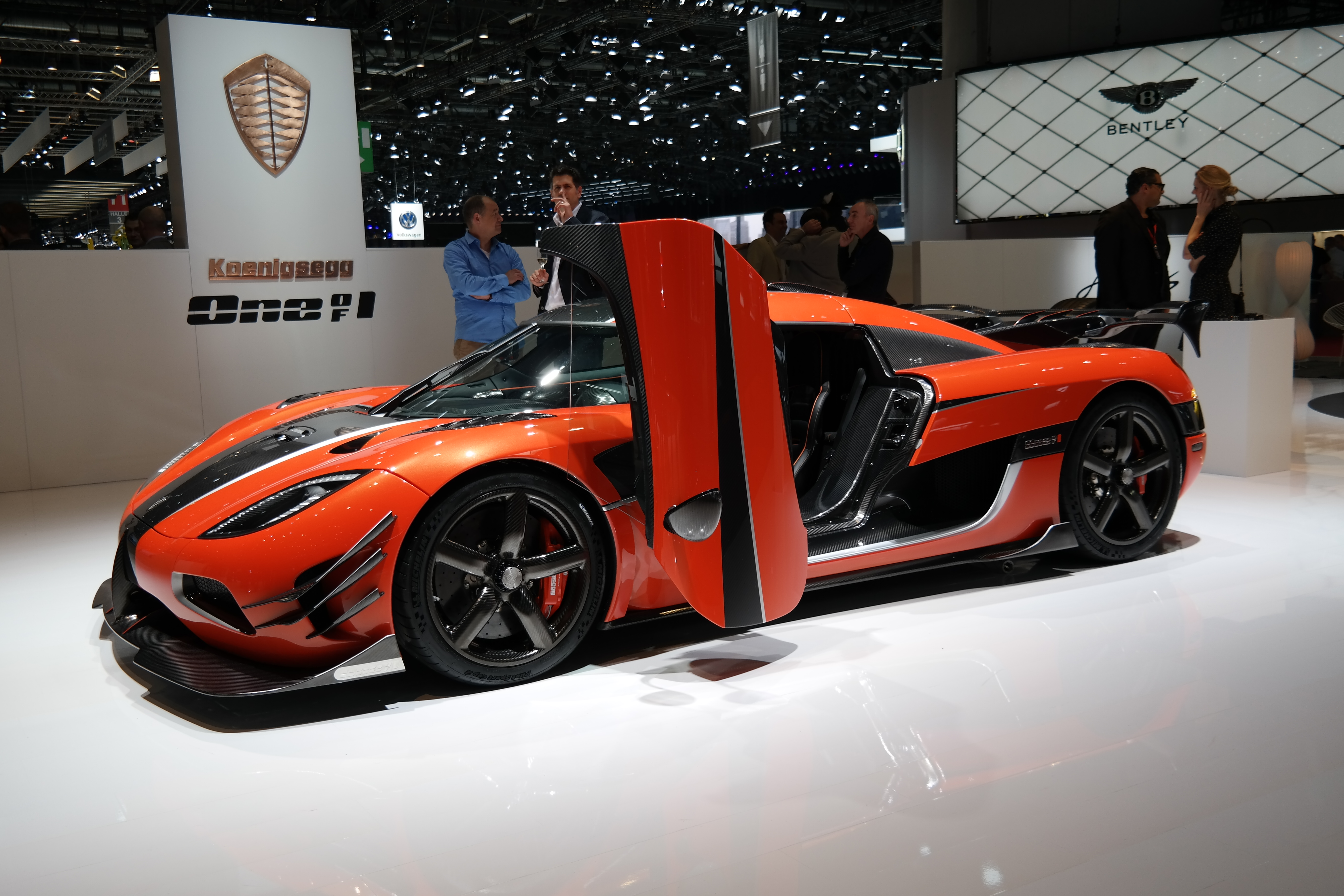 Geneva Motor Show 2016 (photo taken on the first press day)